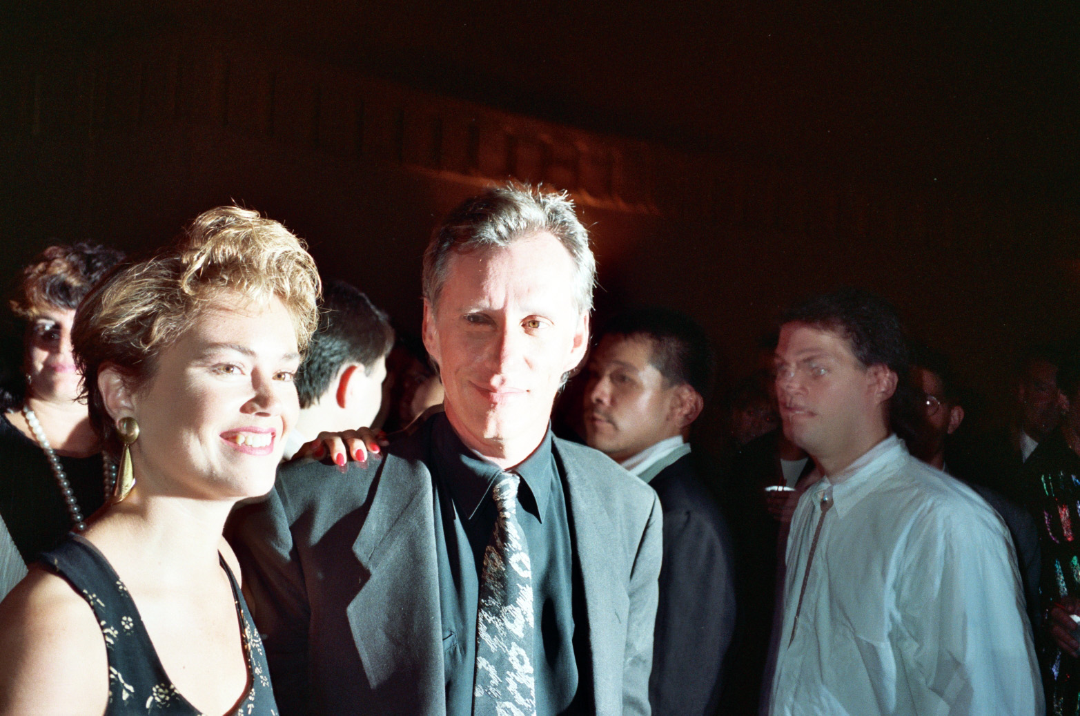 AIDS Project Los Angeles (APLA) benefit, Los Angeles- Sept. 1990- Permission granted to copy, publish or post but please credit "photo by Alan Light" if you can